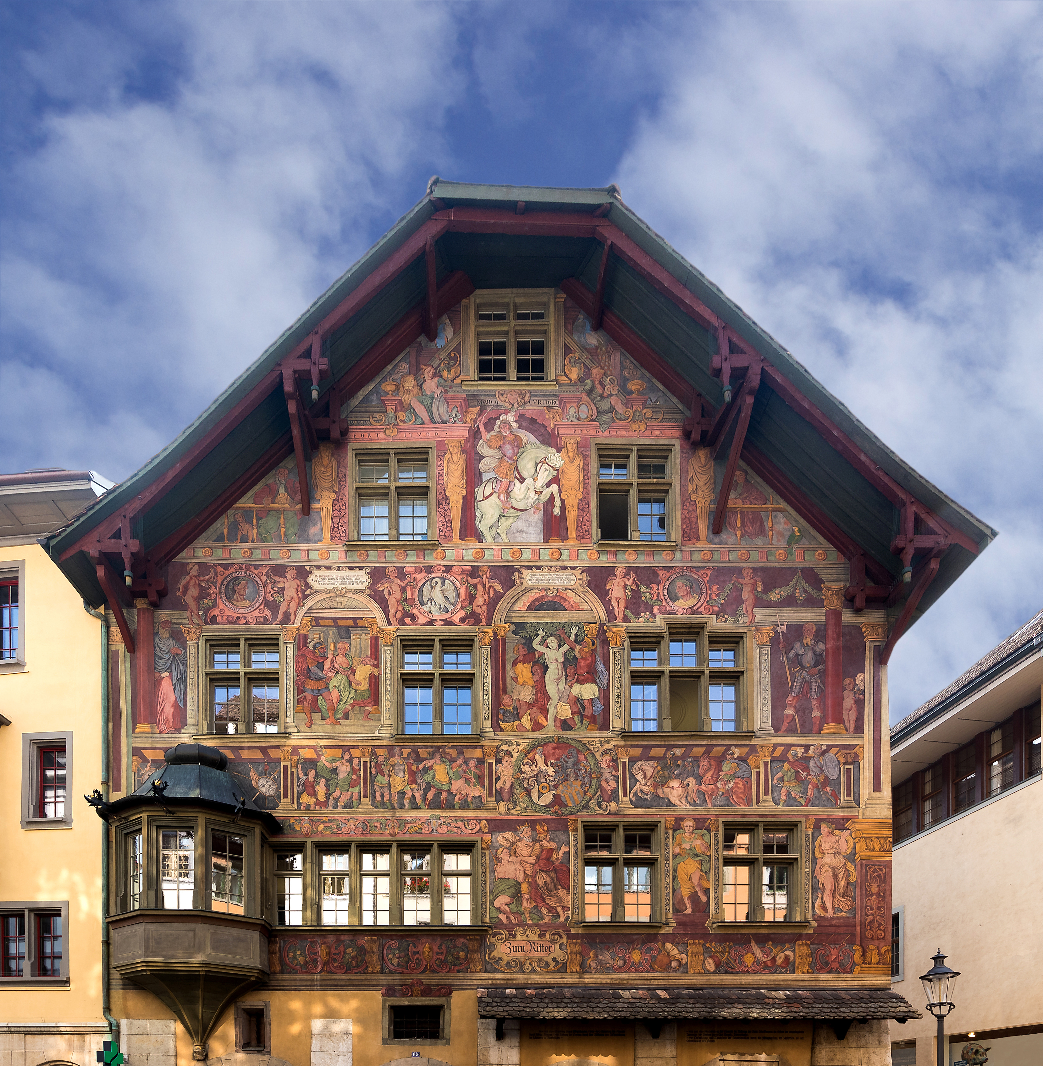 Haus zum Ritter, Vordergasse 65, Schaffhausen, Switzerland